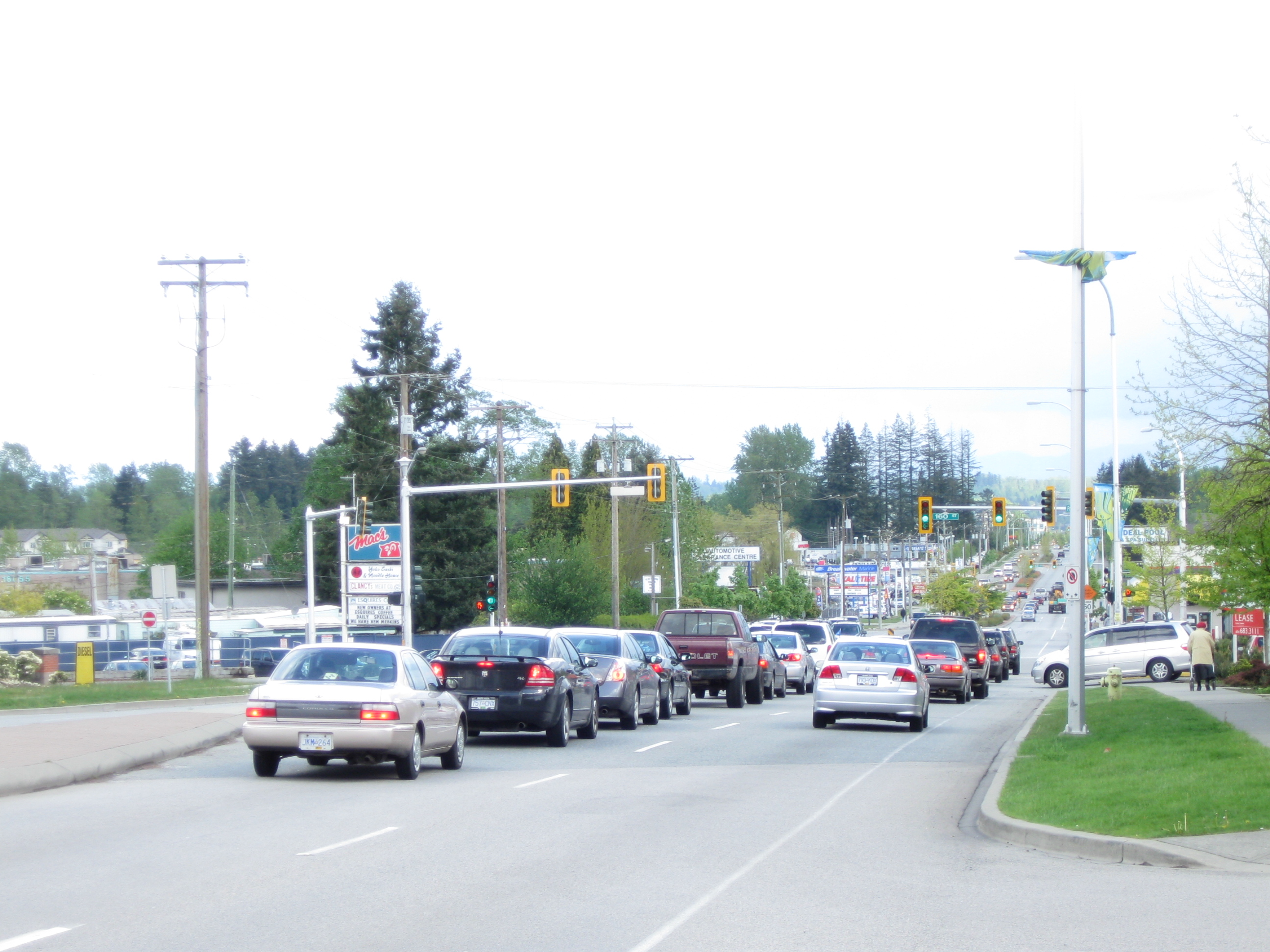 A Southeast facing view of Downtown Fleetwood Town Centre along Fraser Highway at the busy junction of 160 Street. Surrey Fleetwood is one of the six major suburbs of the City of Surrey in BC, Canada.